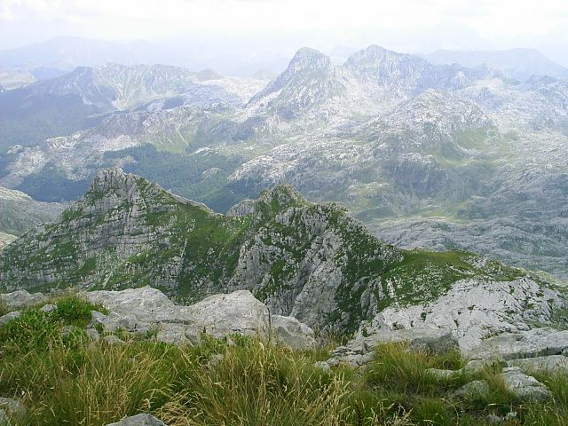 Komovi Mountain in the SE part of Montenegro